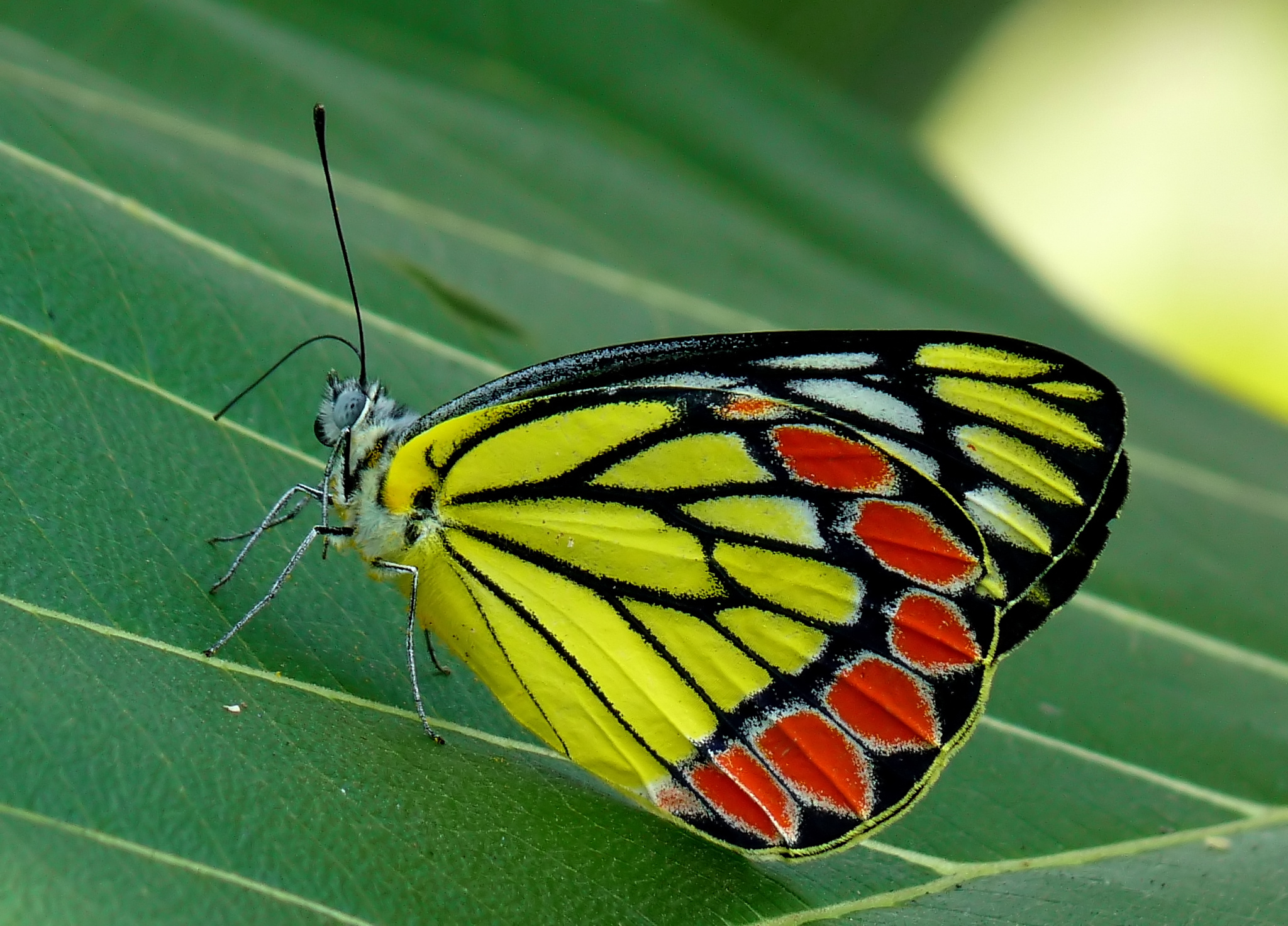 The Common Jezebel (Delias eucharis) is a medium sized pierid butterfly found in many areas of South and Southeast Asia, especially in the non-arid regions of India, Sri Lanka, Myanmar and Thailand. The Common Jezebel is one of the most common species in the genus Delias. This individual is male. The butterfly may be found wherever there are trees, even in towns and cities, flies high among the trees and comes lower down only to feed on nectar in flowers. It rests with its wings closed exhibiting the brilliantly coloured underside. Due to this habit apparently, it has evolved a dull upper-side and a brilliant underside so that birds below it recognise it immediately while in flight and at rest. The bright coloration is to indicate the fact that it is unpalatable due to toxins accumulated by the larvae from the host-plants. Taken at Kadavoor, Kerala, India